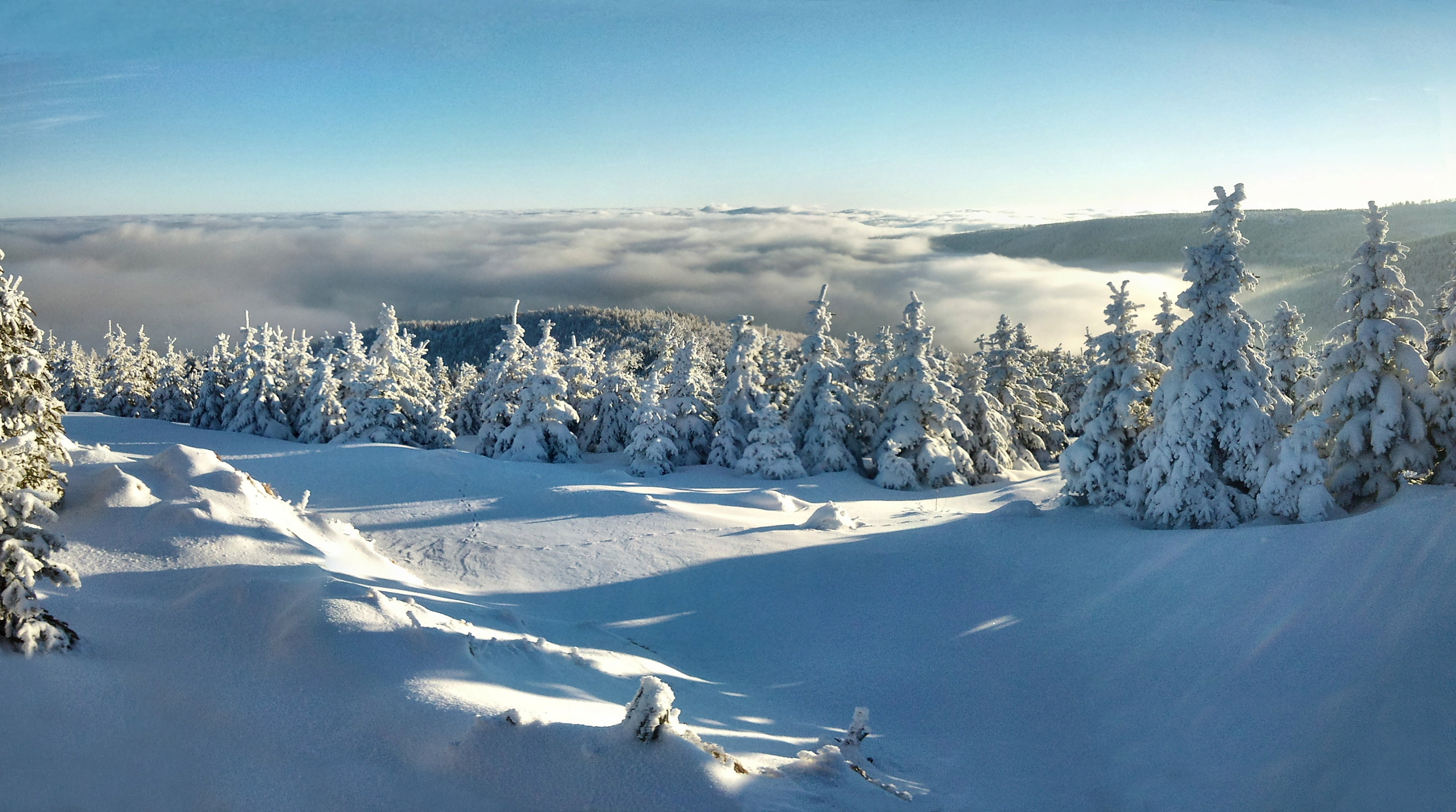 Ore Mountains: View from the mountain Vysoká seč to south